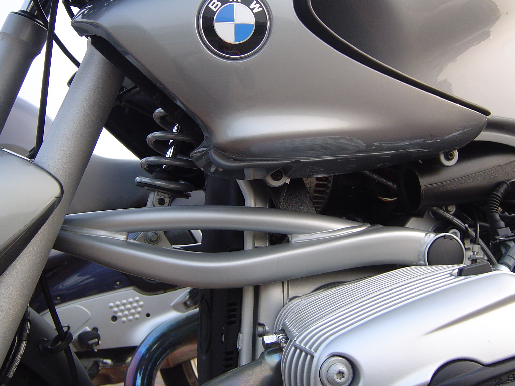 BMW Telelever system: the carrier arms hinge at the engine block.